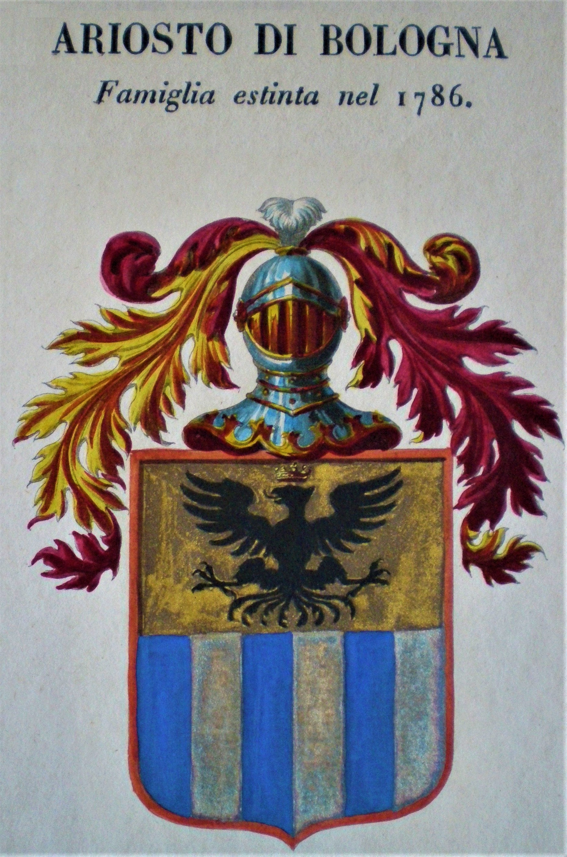 Photograph from Pompeo Litta (1700)